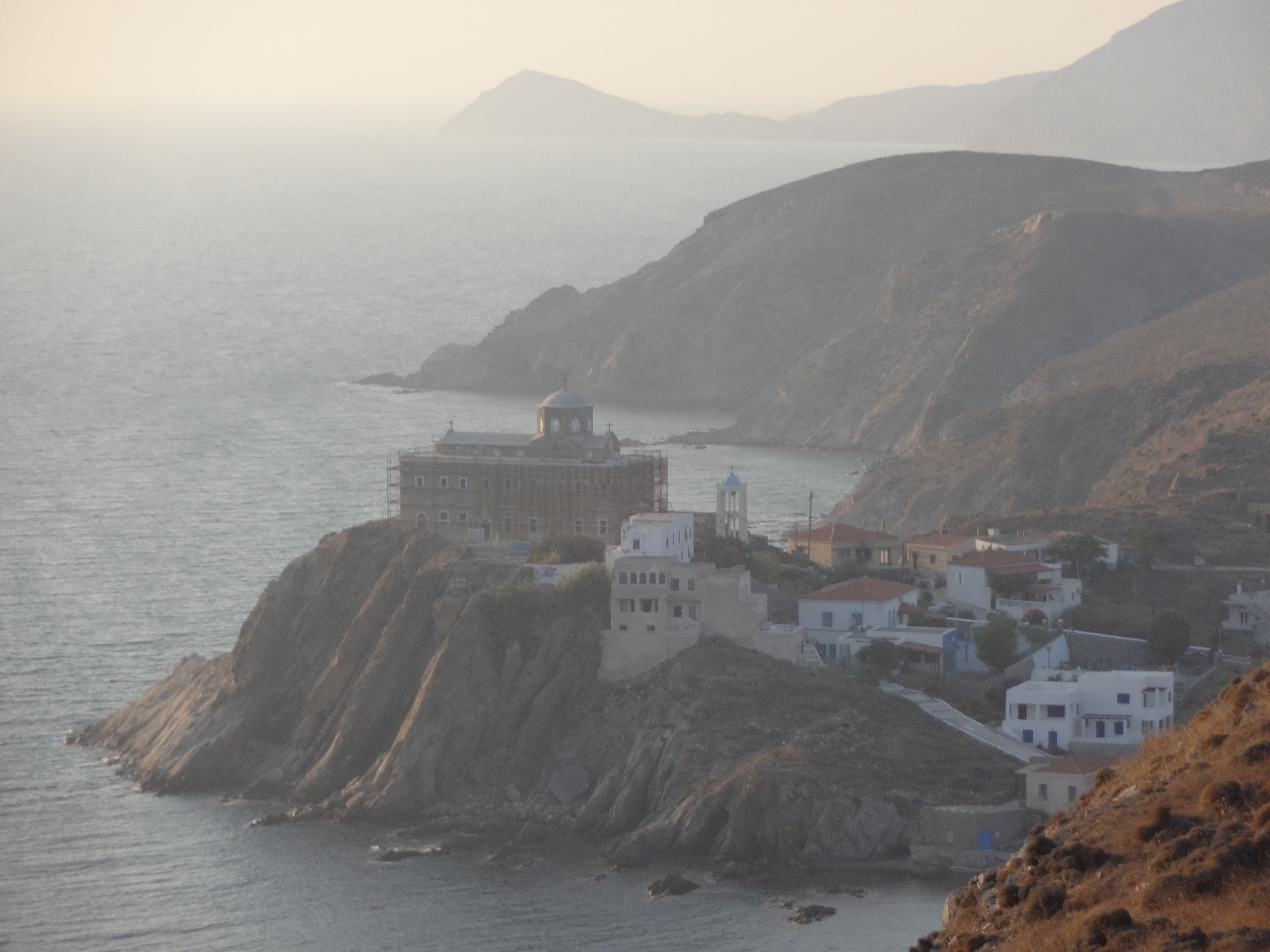 Island of Psara, Greece. Church of St.Nicolas